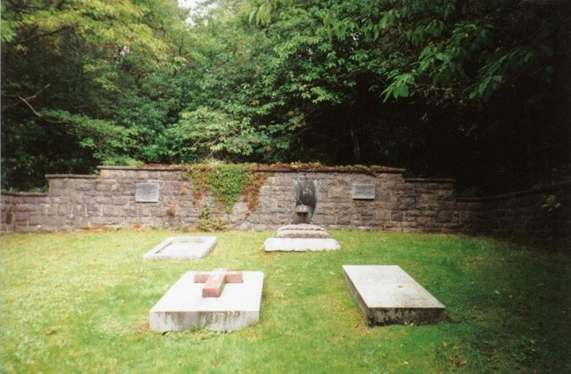 Eilean Dubh Small Cemetery on Eilean Dubh, Kyles of Bute